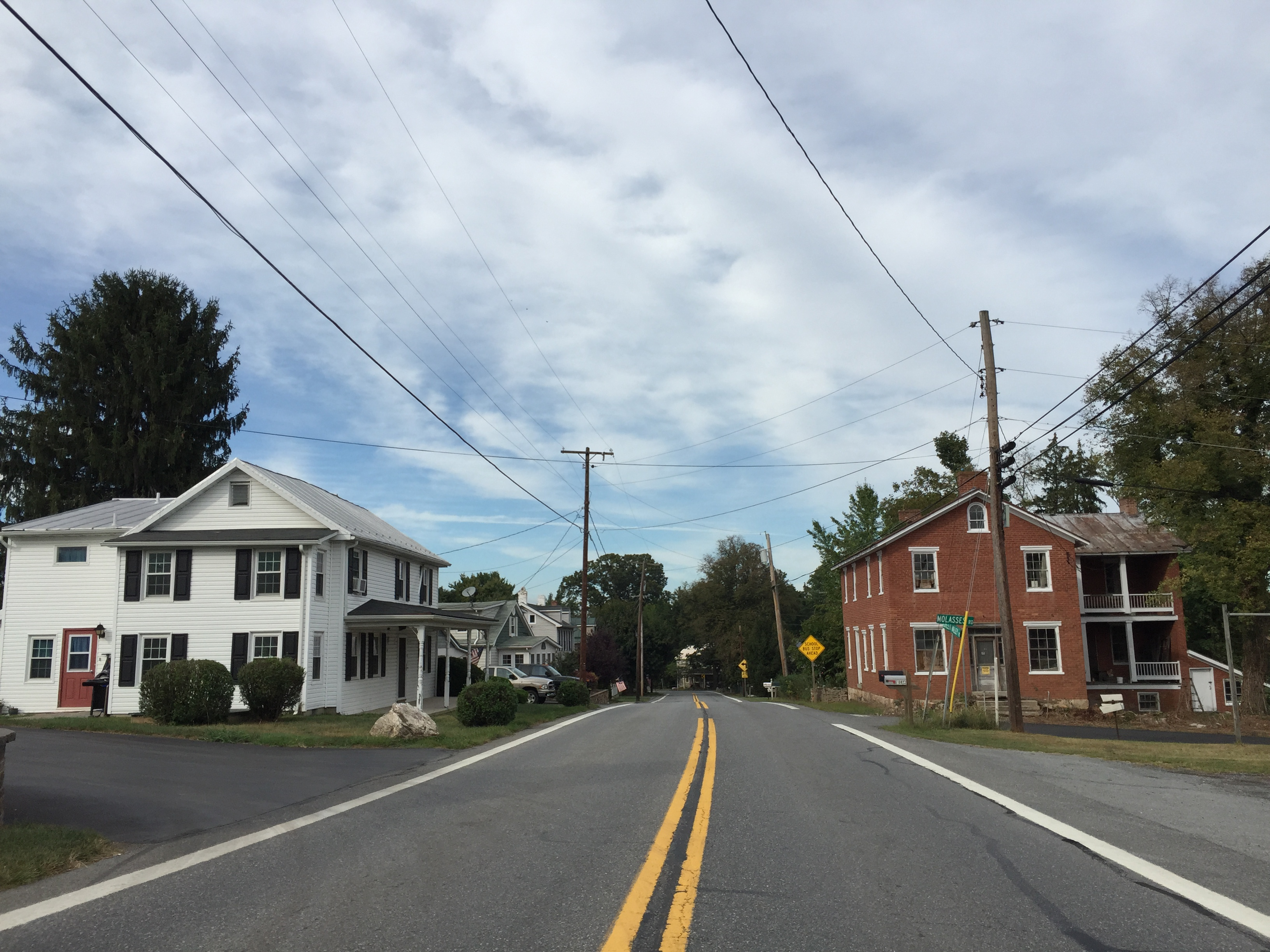 View north along Maryland State Route 75 (Green Valley Road) at Molasses Road in Johnsville, Frederick County, Maryland